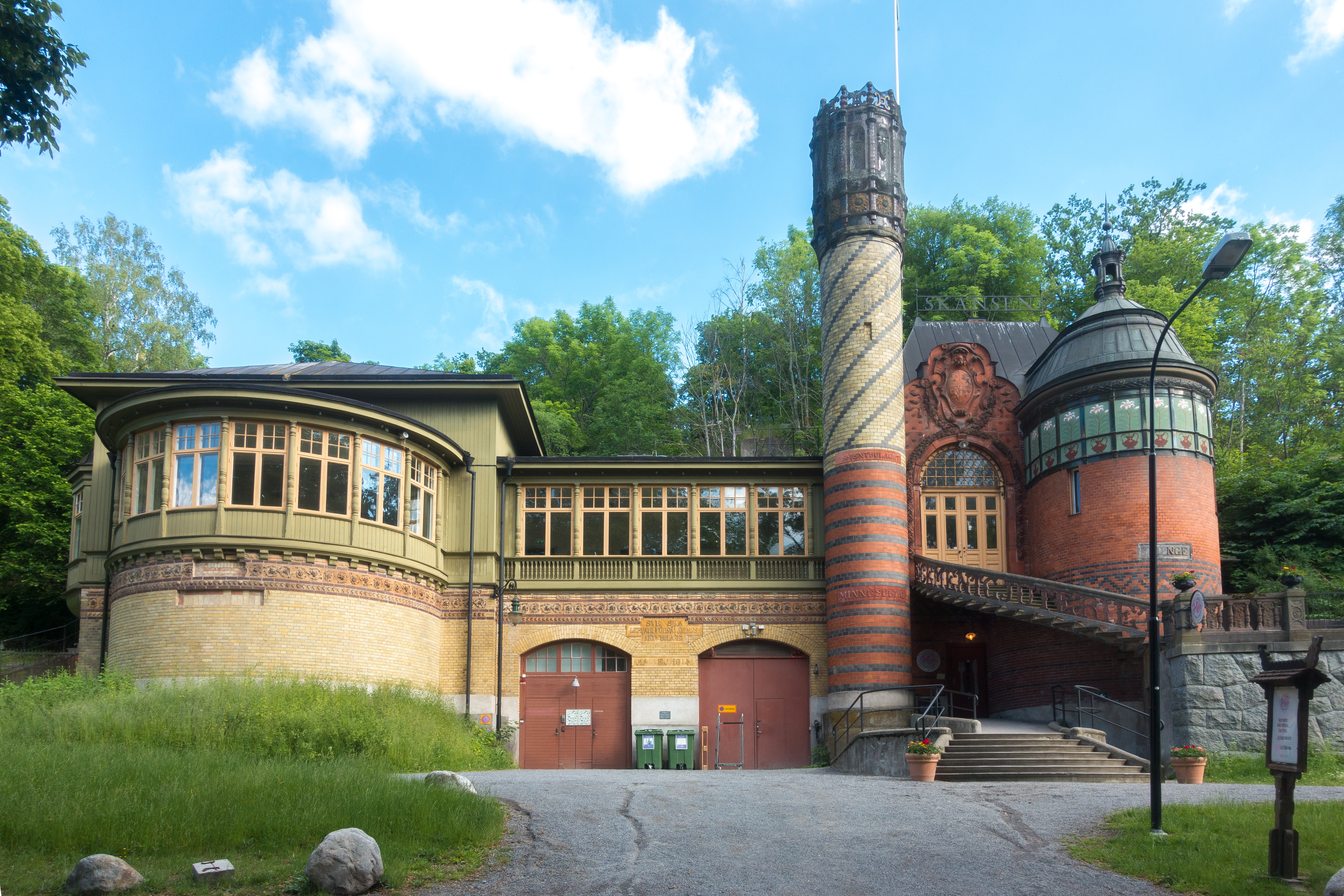 Skånska gruvan at Djurgården in Stockholm in June 2020.